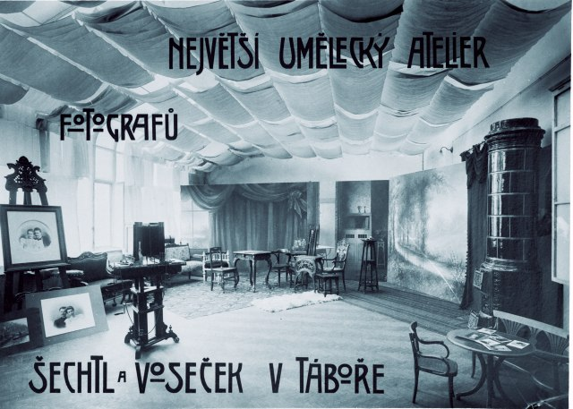 Advertisement photograph used by Šechtl and Voseček studios in Tábor, approx 1907, picturing the new studio itself.